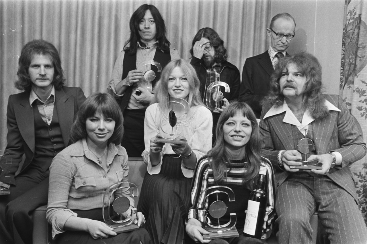 Black and white picture of Pussycat Pop Group from Limburg, Netherlands being presented with the Conamus Award in 1977 by English Ambassador Sir John Barnes